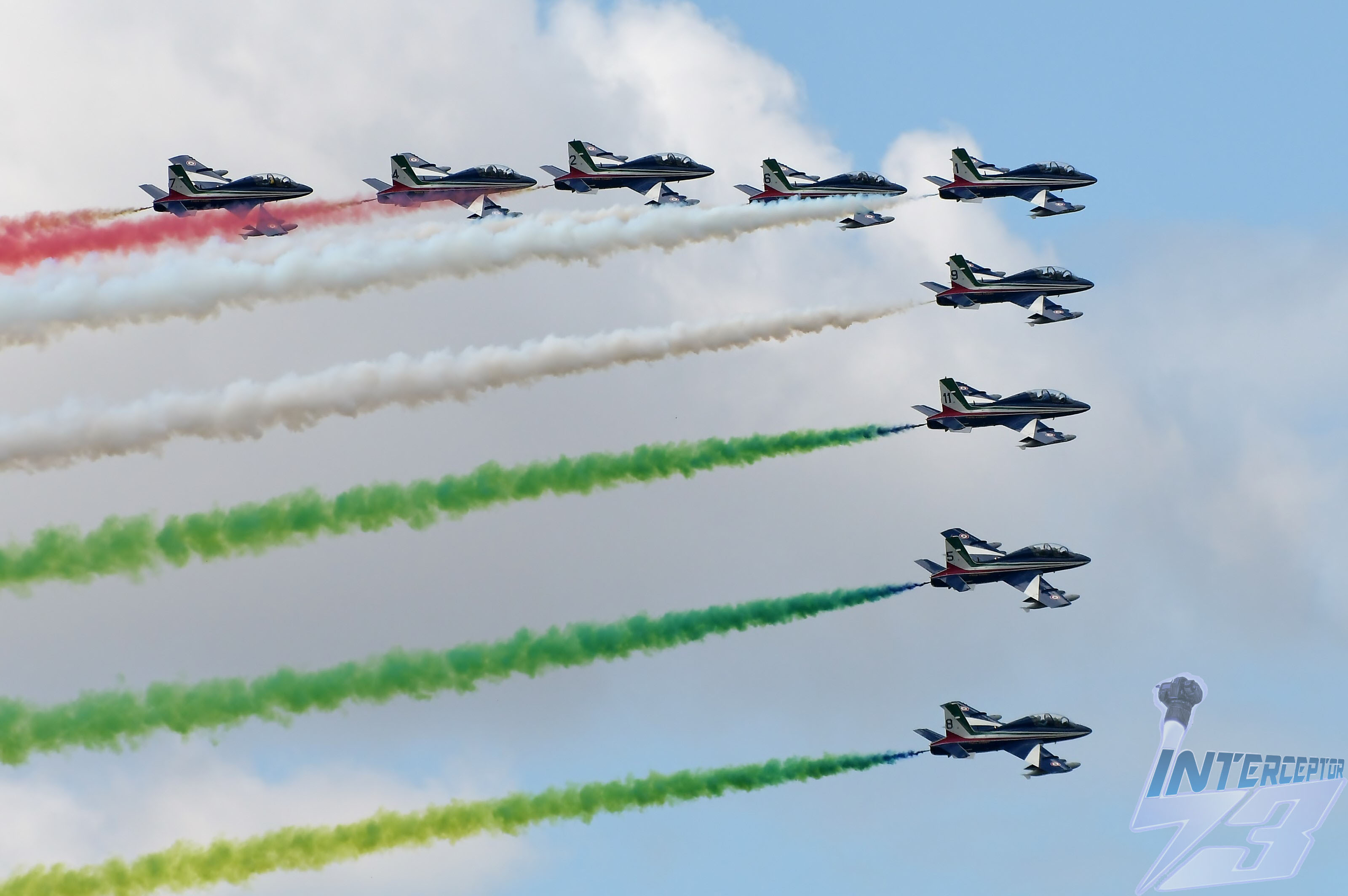 Frecce Tricolori, Aermacchi MB-339 PAN, display before the 2019 Italian Grand Prix, Monza, 8th September